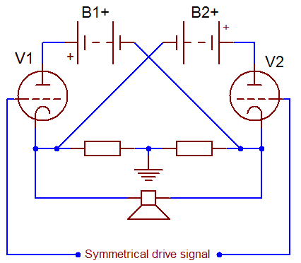 Basic layout of a symmetrical bridge transformerless amplifier, i.e. circlotron.